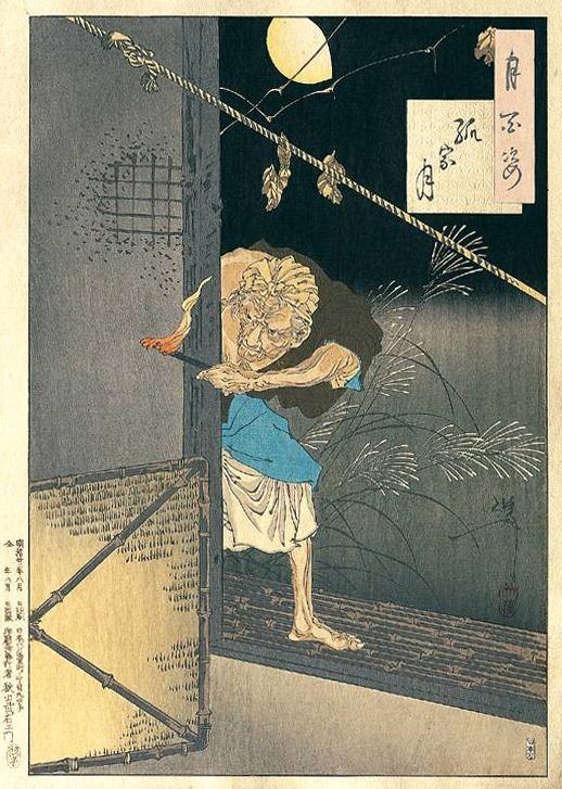 Moon of the Lonely House (Hitotsuya no tsuki)